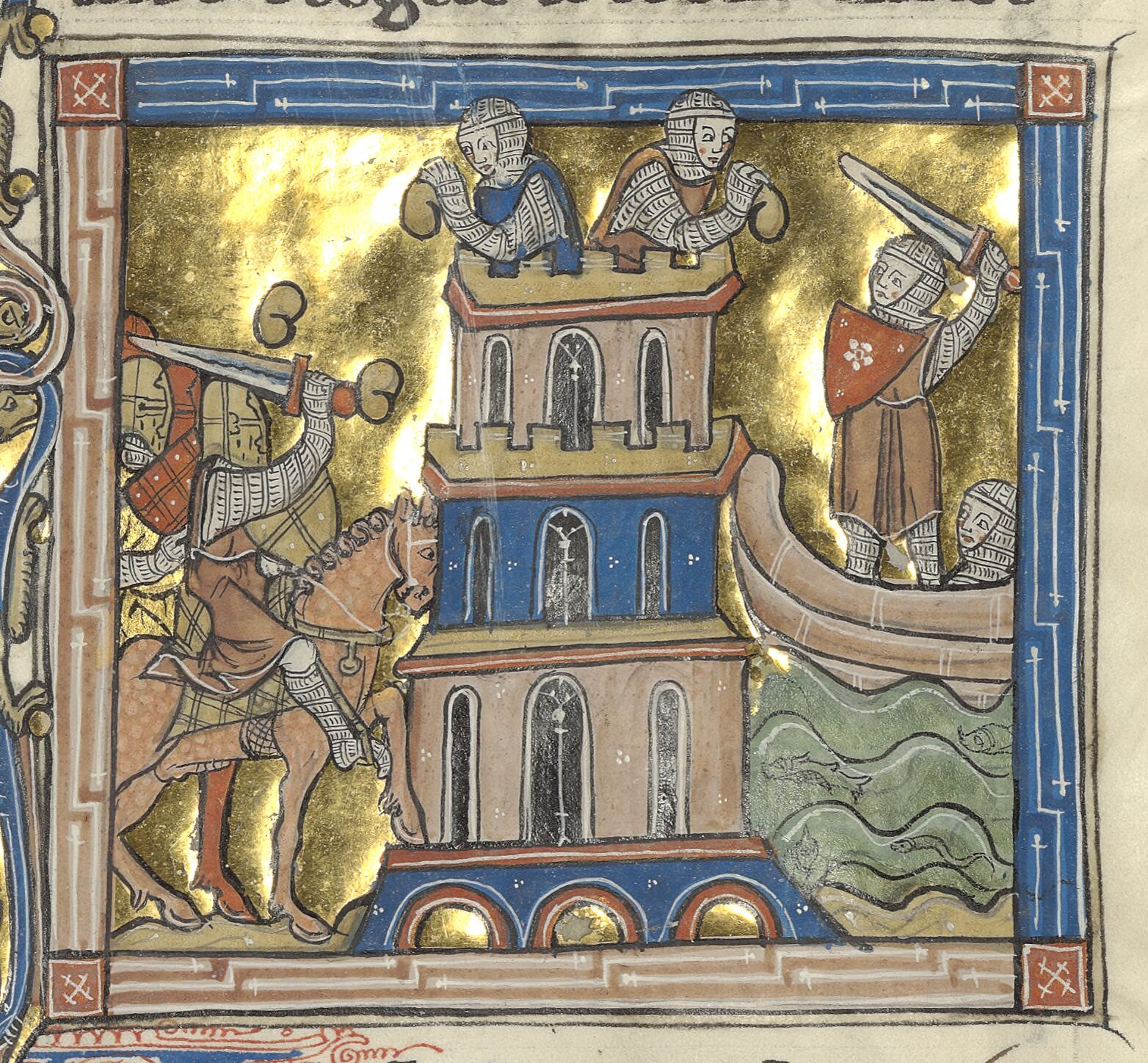 Miniature: siege of Pelusium, 1168